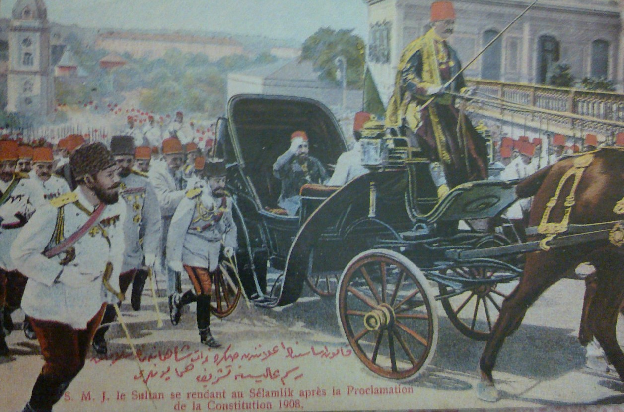 Sultan Abdulhamid II on his way to the mosque (Selamlik ceremony) soon after he was compelled by the Young Turks to restore the Constitution in July 1908. Cropped from a contemporary postcard.